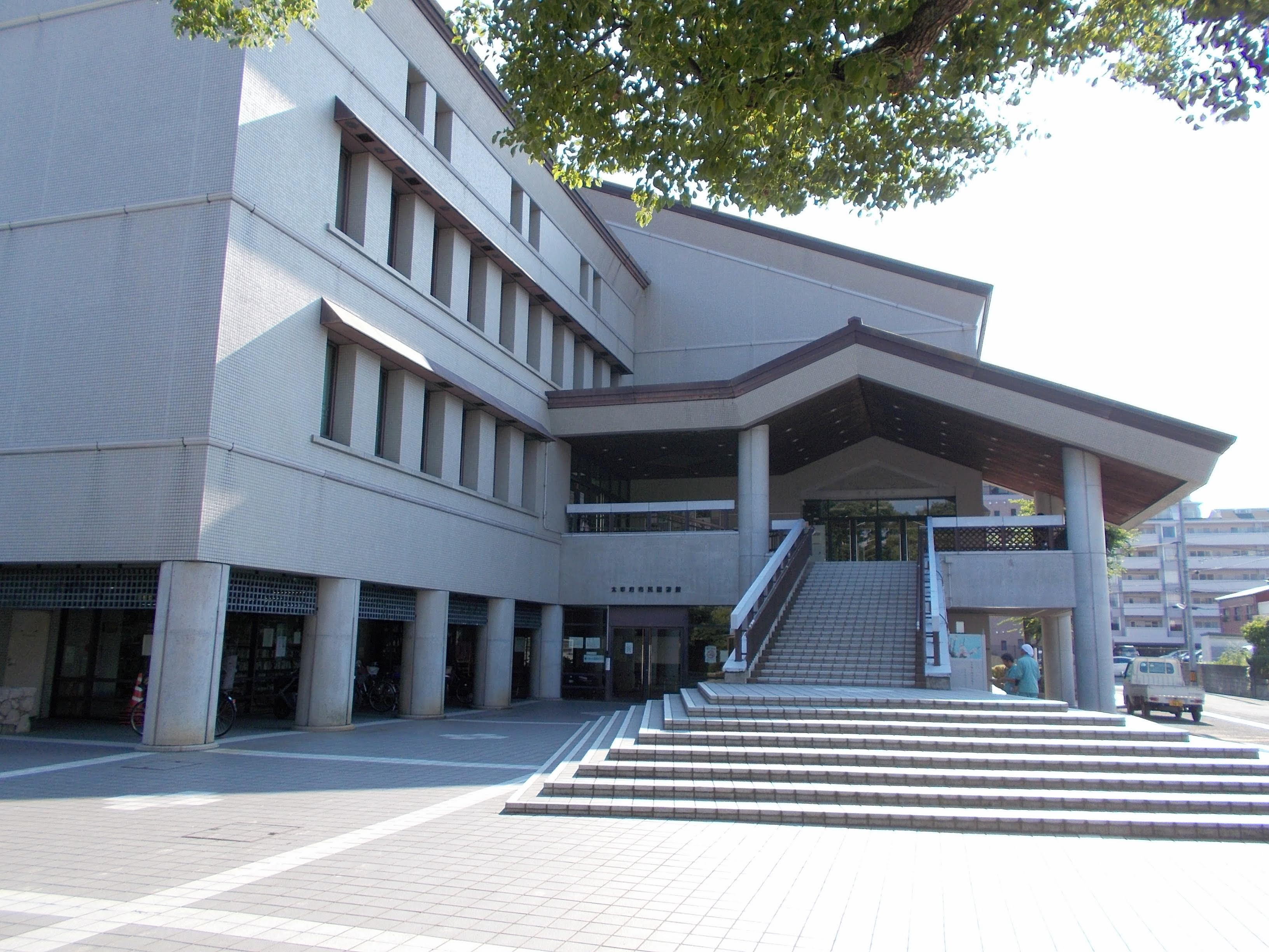 Dazaifu City Central Public Hall and Library, nicknamed as the Plum Culcore (coined words of culture and core) Dazaifu, is located near Dazaifu City Hall in Fukuoka Prefecture, Japan